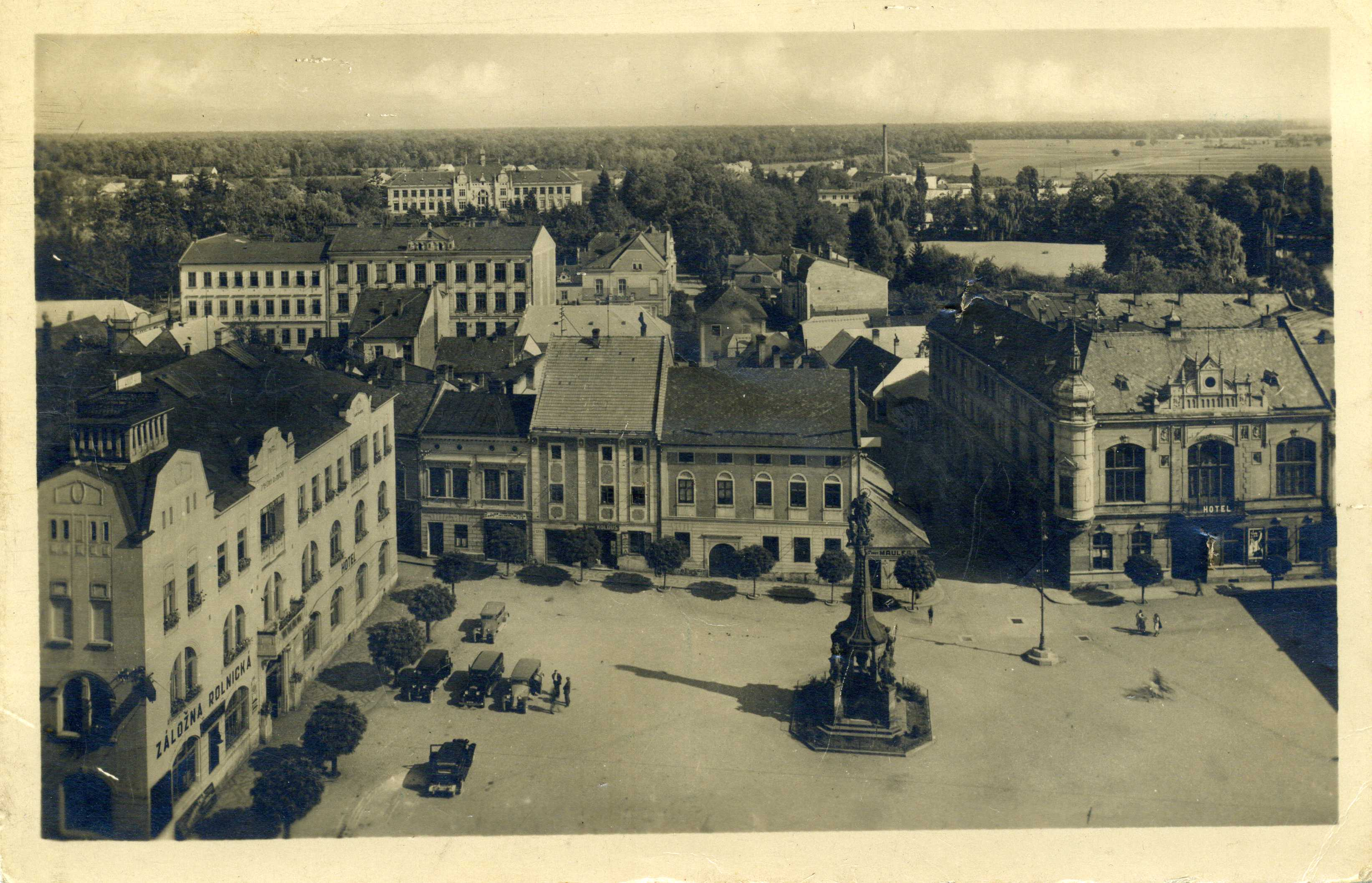 Historical postcard with the Přemysl Otakar Square in Litovel. There is also the building of Litovel gymnázium (nowadays Gymnázium Jana Opletala) in the background.